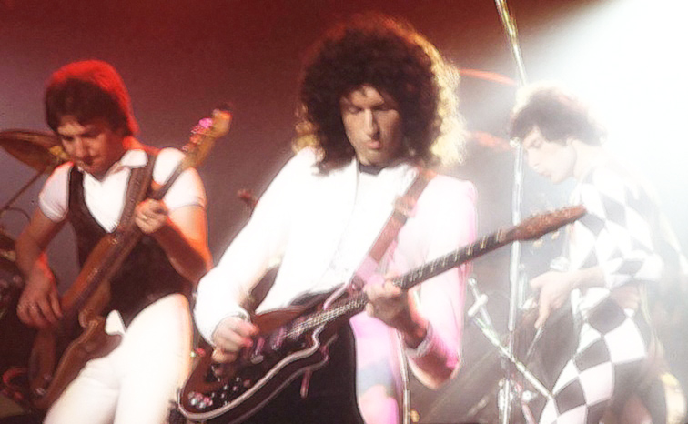 Queen performing in New Haven, CT.